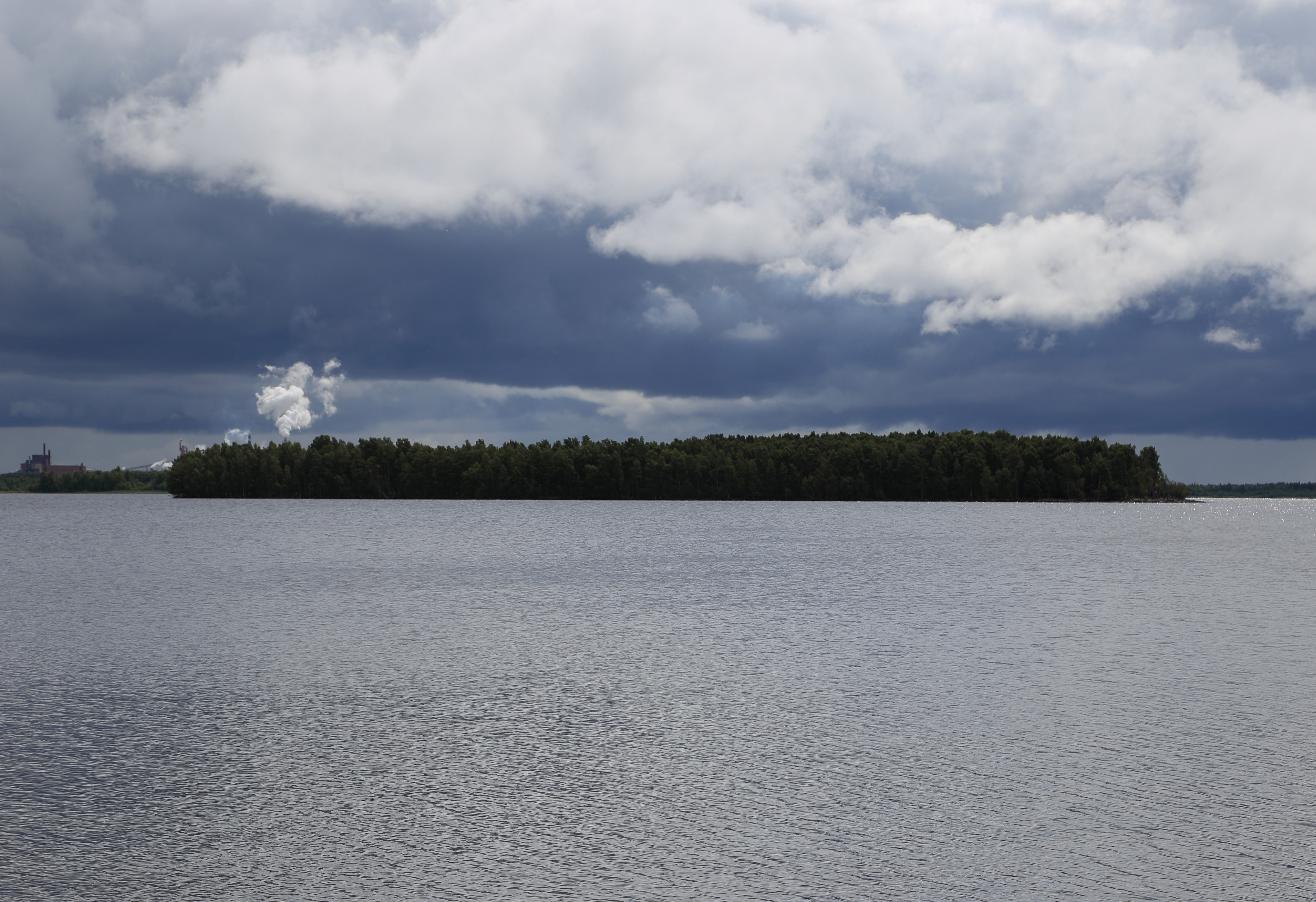 The Laitakari island in Kemi, Finland.